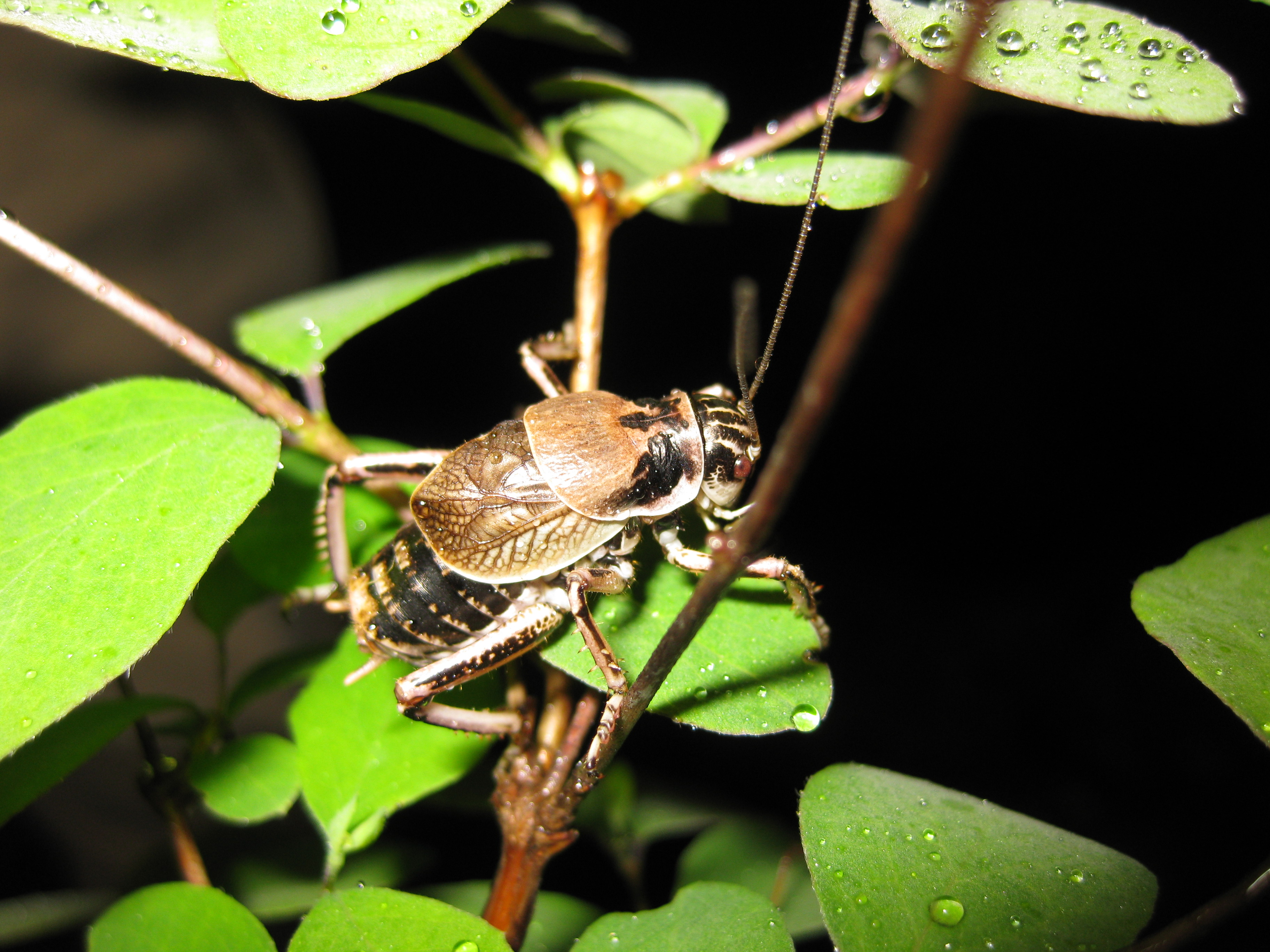 A male Cyphoderris buckelli.